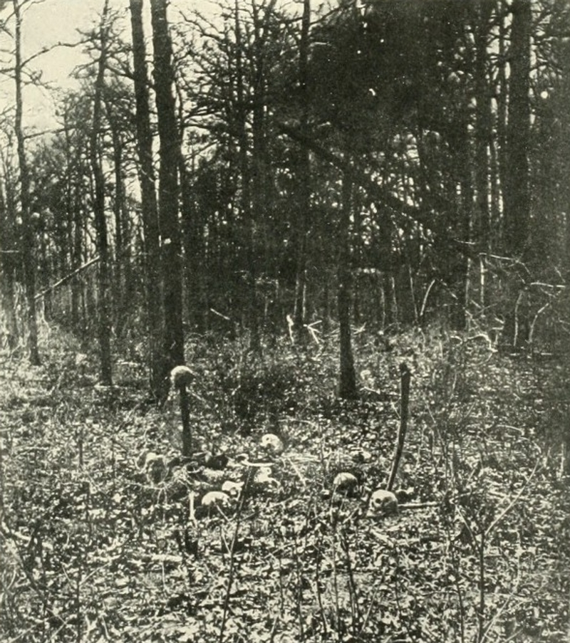 Skulls remaining on the field and trees destroyed at the Battle of the Wilderness, 1864.